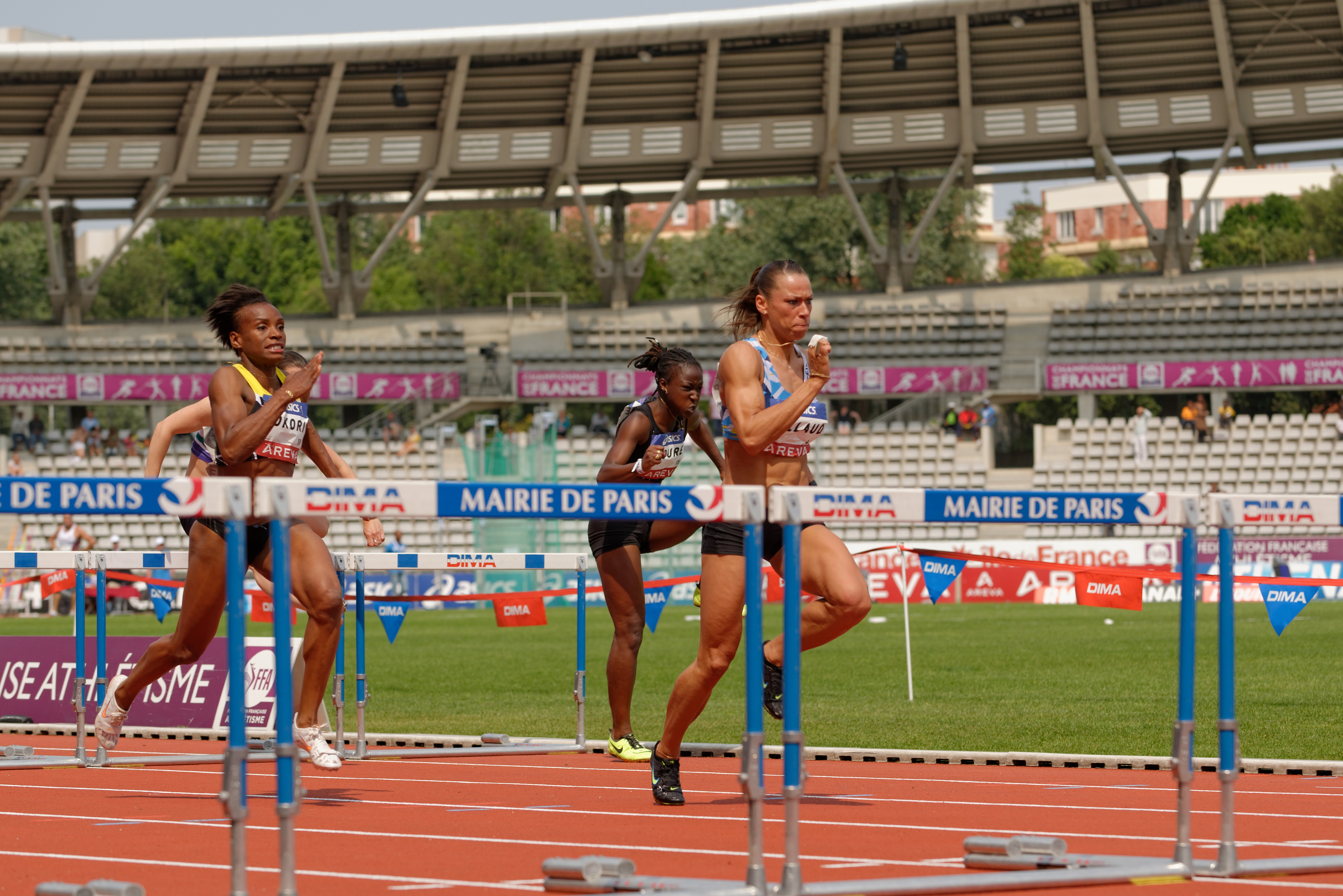 Cindy Billaud wins the final of the 100 metres hurdles during the French Athletics Championships 2013 at Stade Charléty in Paris, 13 July 2013.